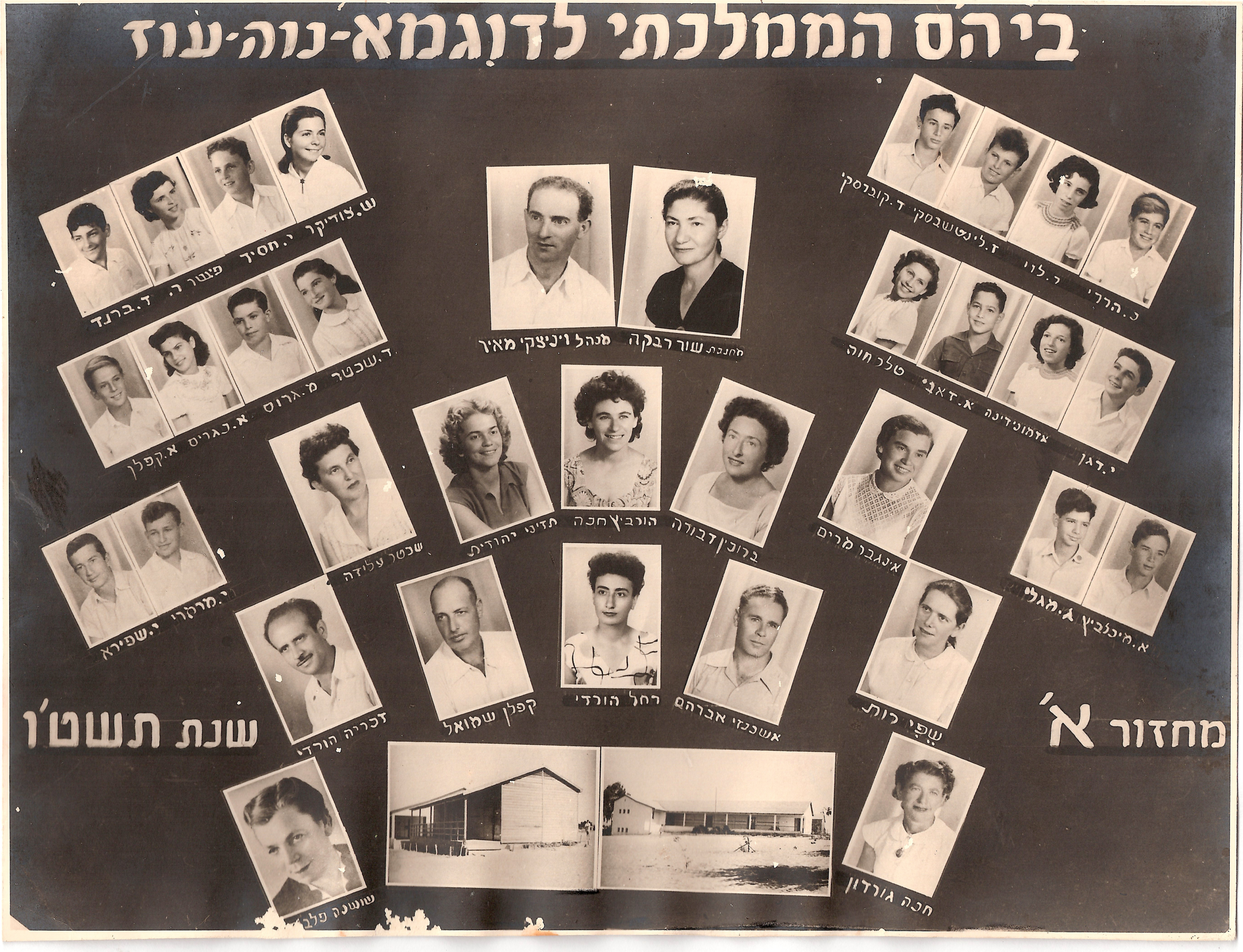 Year 1 of Neve-Oz School, Petah Tiqva